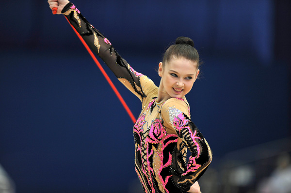 Photograph of rhythmic gymnast Alina Maksymenko of Ukraine performing with rope at 2009 World Championships at Mie, Japan on September 11, 2009. Photo credit by Tom Theobald and released into the public domain.